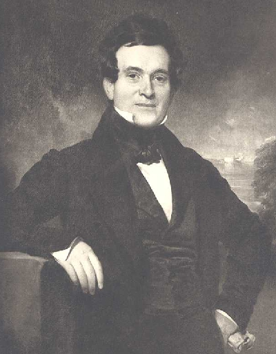 Aaron Clark, Collection of the City of New York.